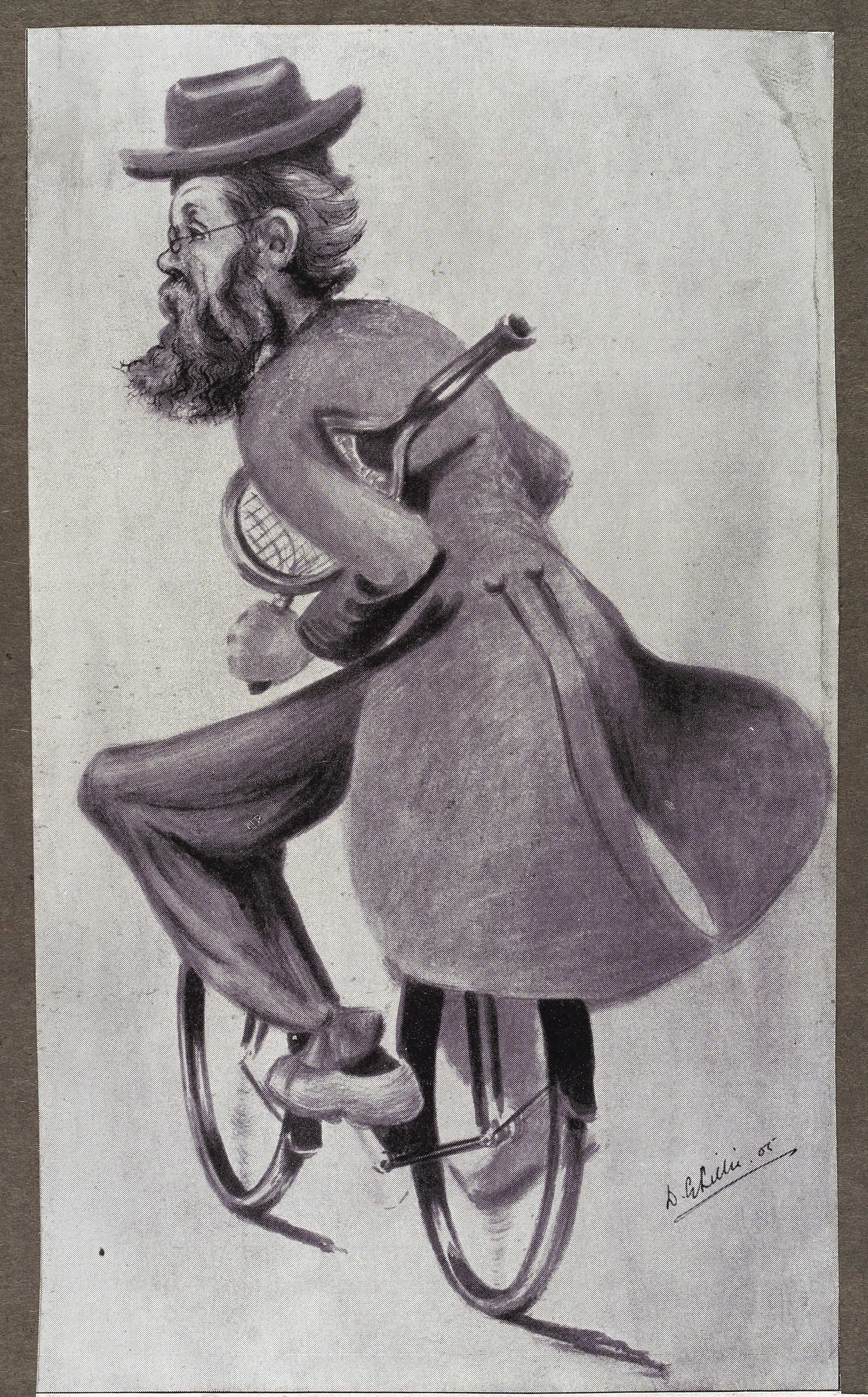 Prof. E. A. Sonnenstein riding a bicycle Archives & Manuscripts